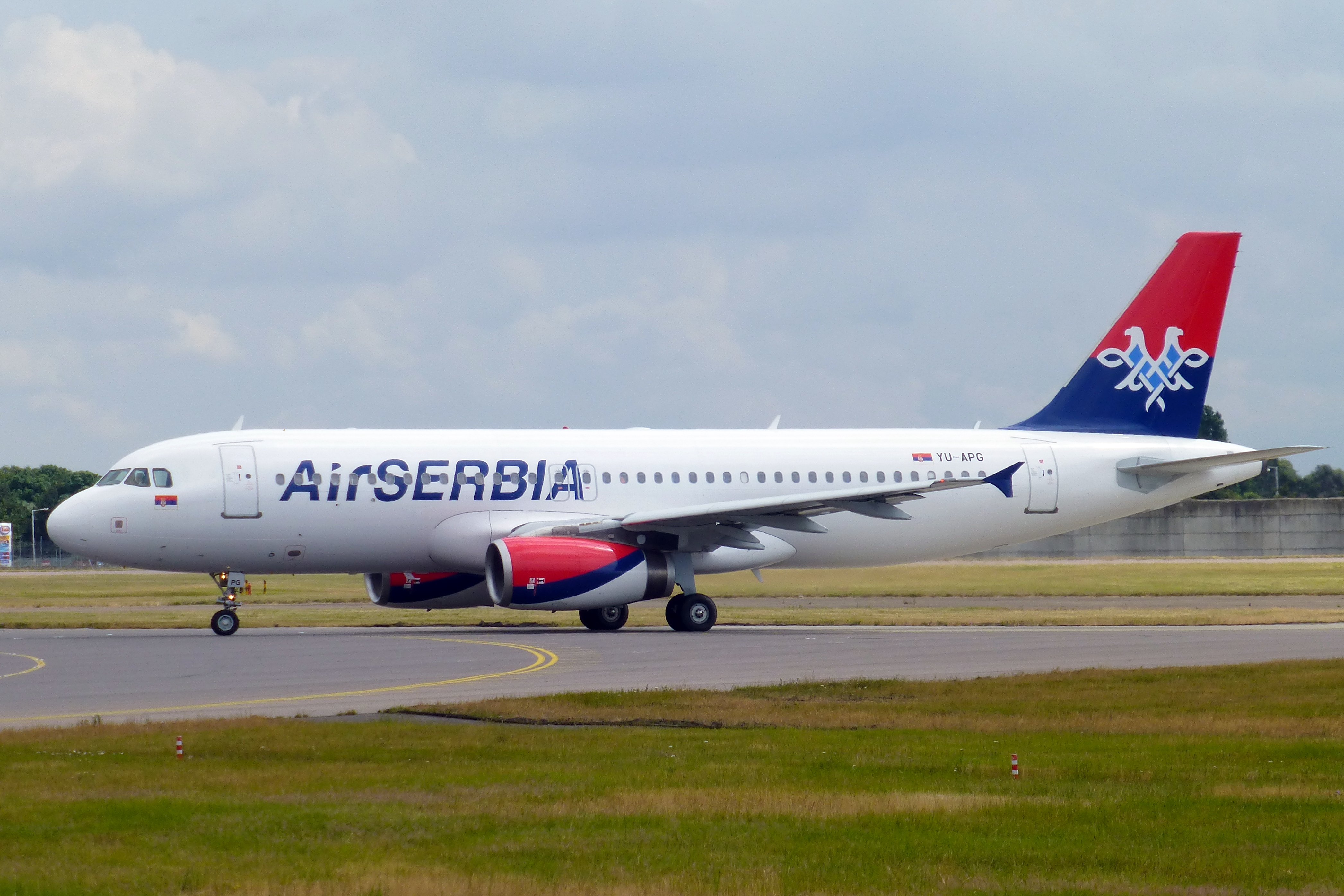 YU-APG Airbus A320 Air Serbia lining up on rwy 09R after its first visit.